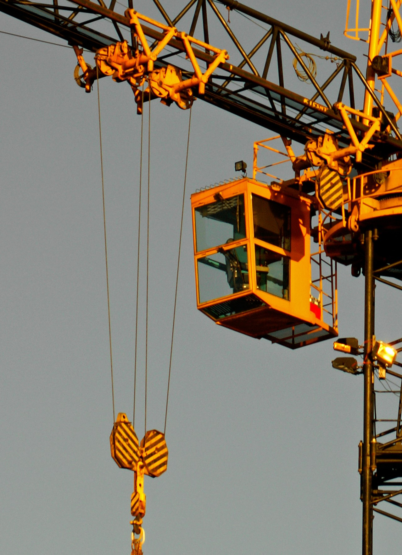 yellow crane in Espoo, Finland, with a gray background, cropped for illustration of a pulley